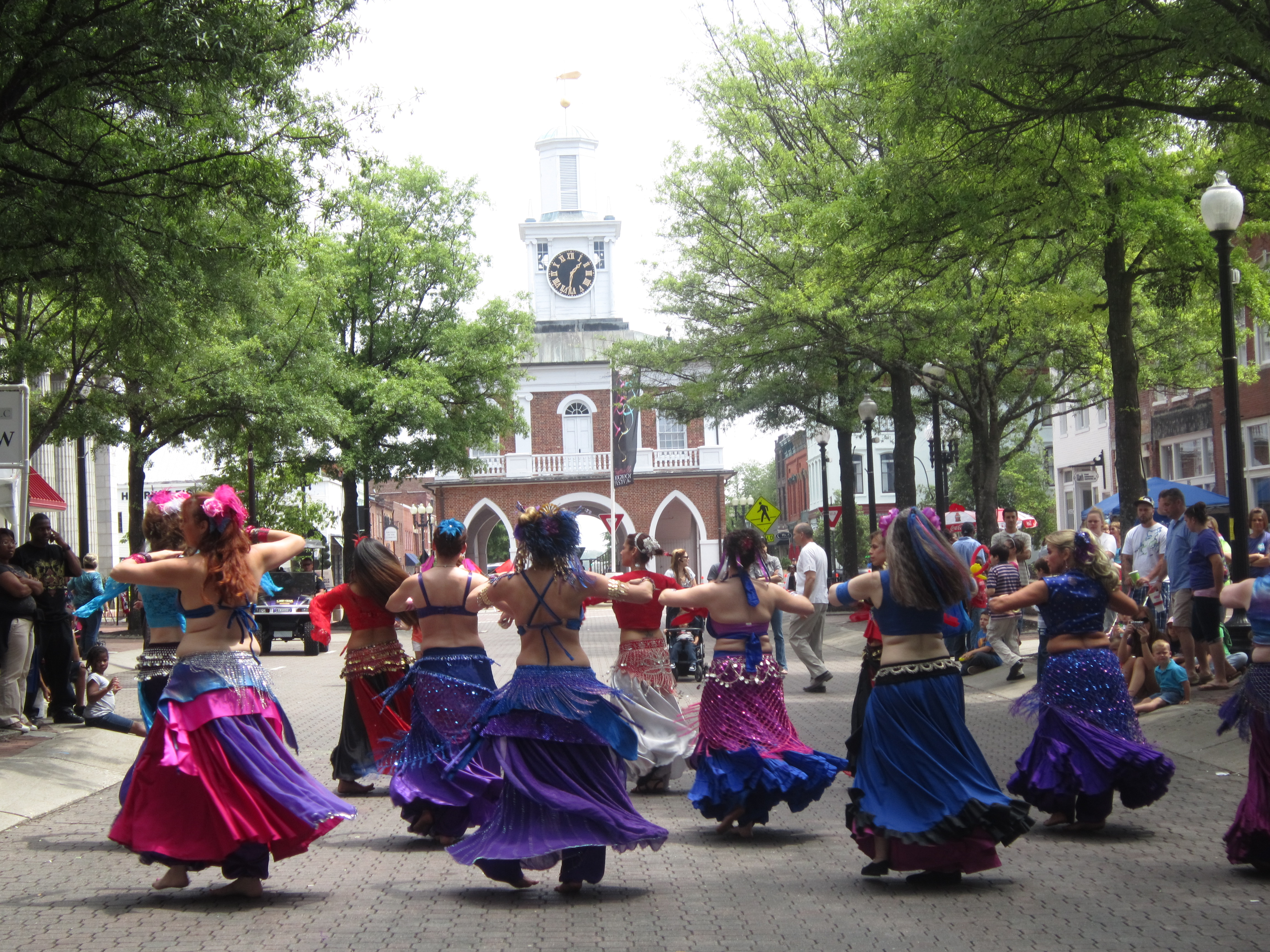 Bellydancers at Fayetteville Dogwood Festival - Fayetteville, North Carolina.